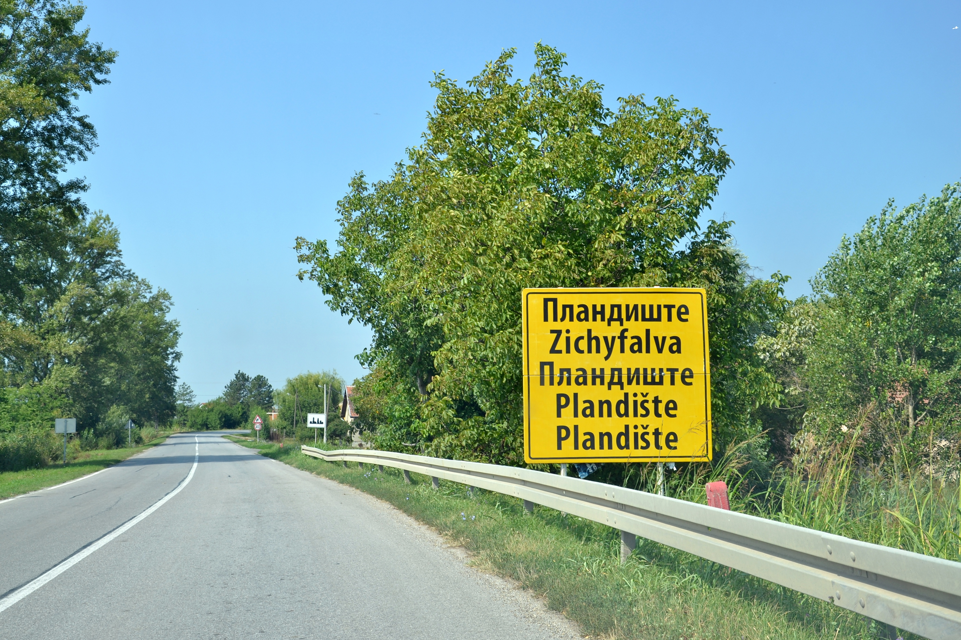 Plandište, Vojvodina, Serbia. Multilingual city limit sign